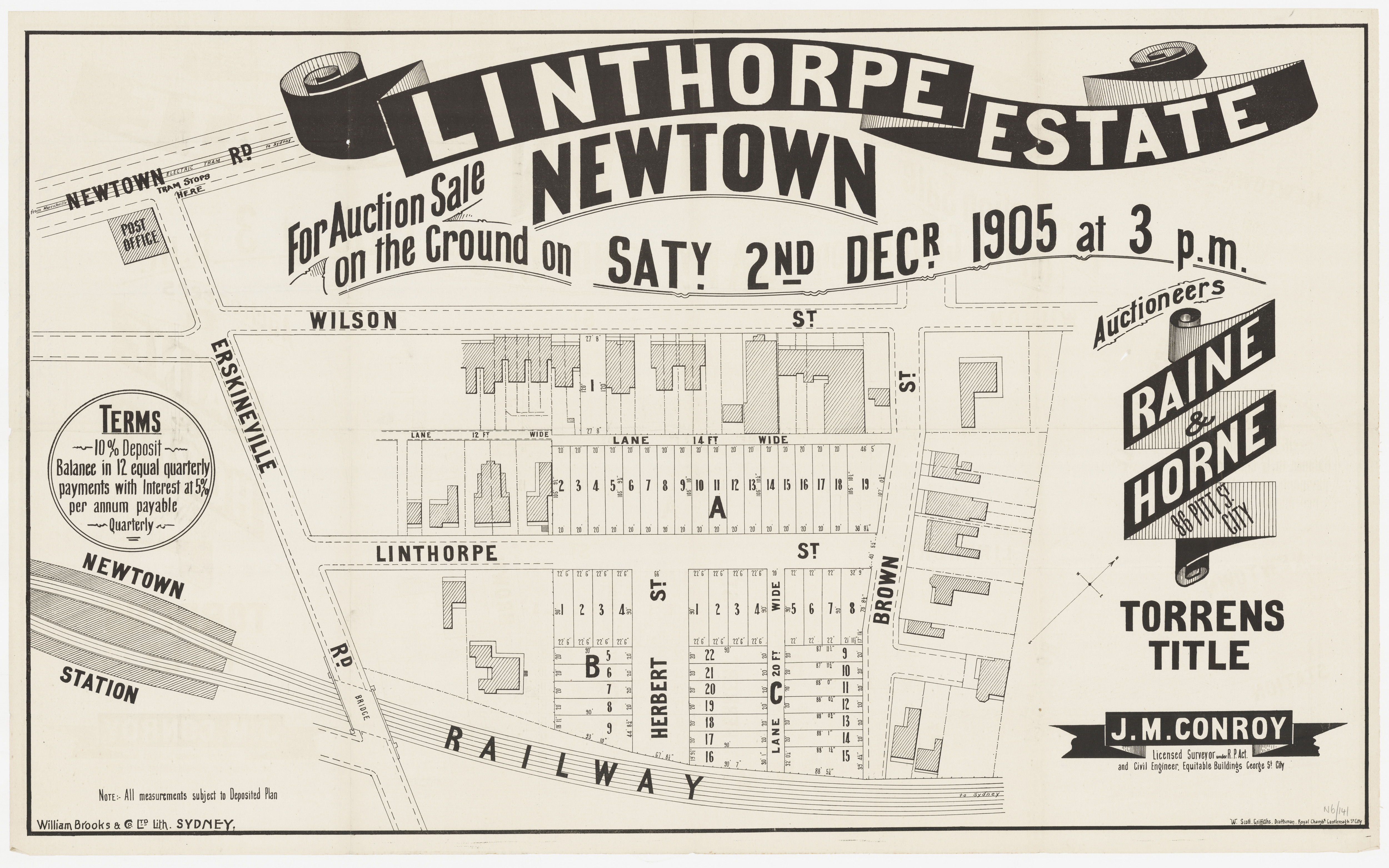 Linthorpe Estate, Newtown, 1905, auction, Raine and Horne, subdivision plan, printed William Brooks, Sydney, State Library of New South Wales Z/SP/N6